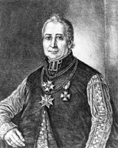 Polish Clergyman Stanisław Kostka Rosołkiewicz, 1775-1855